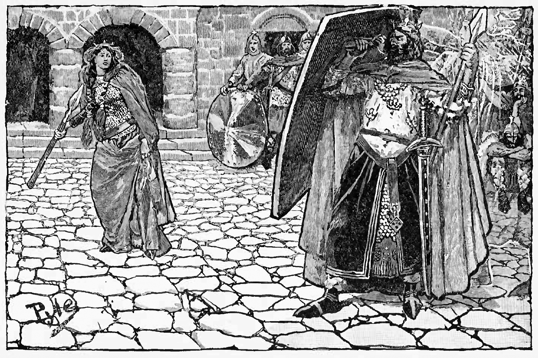 Captioned as "The Trial of Strength". Scene from the Nibelungenlied, Bünnhilde throws a spear at Gunther's shield.